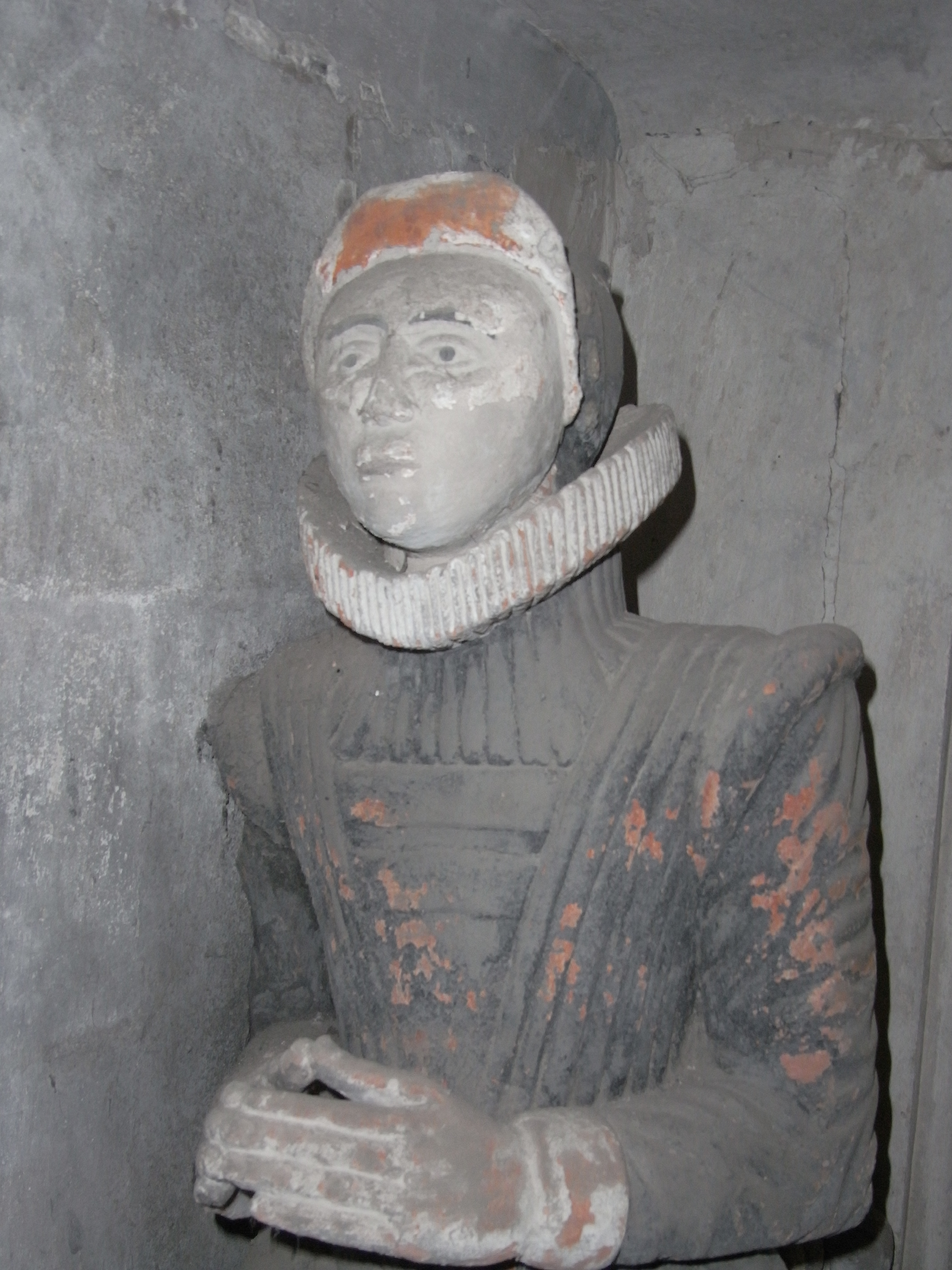 Effigy of Katherine Popham (d.1588), wife of William Pole (1515-1587), Esquire, Pole Chapel, Colyton Church, Devon